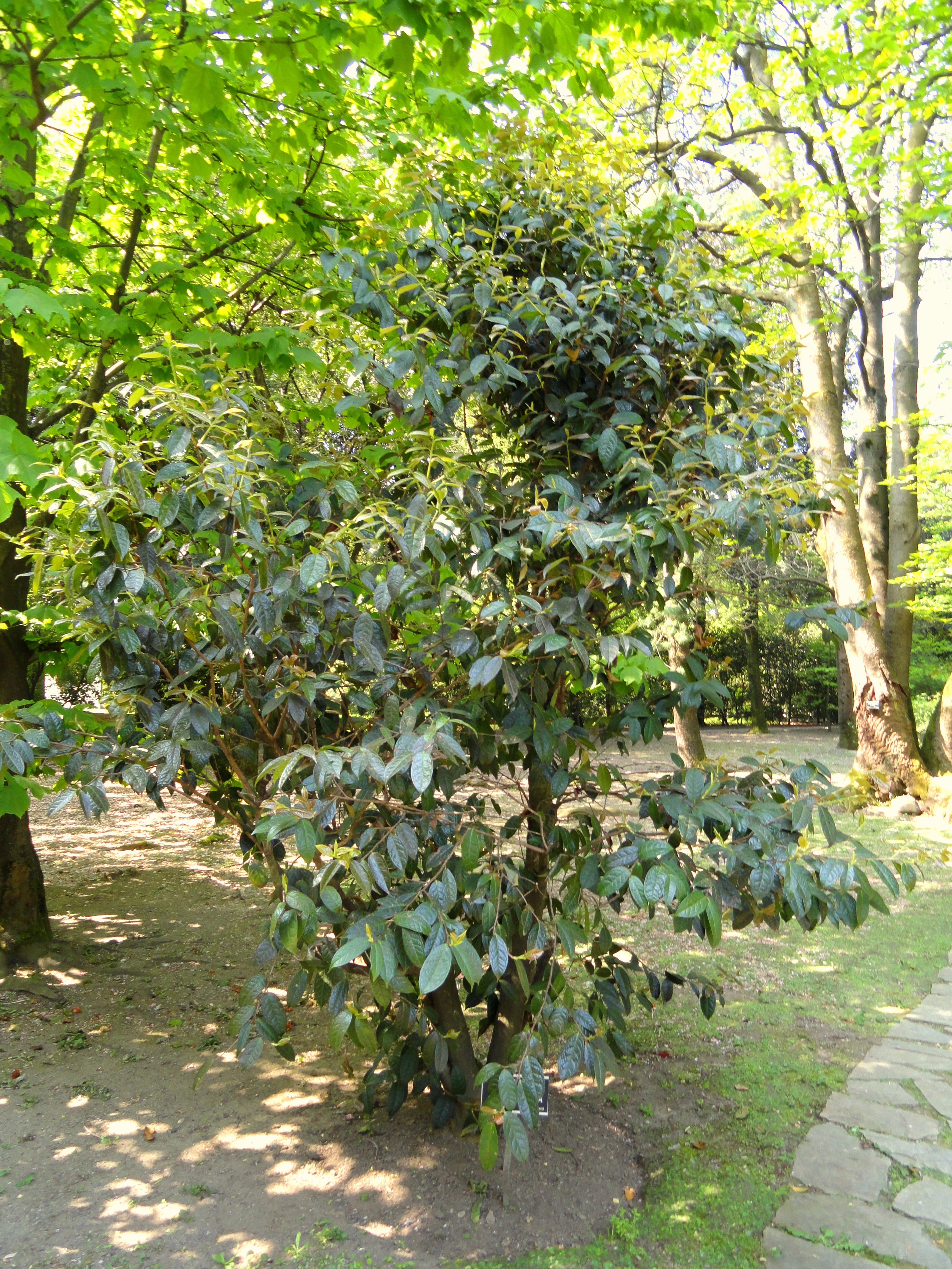 Camellia granthamiana. Botanical specimen on the grounds of the Villa Taranto (Verbania), Lake Maggiore, Italy.